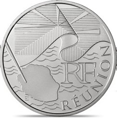 10 euros coin made for Reunion